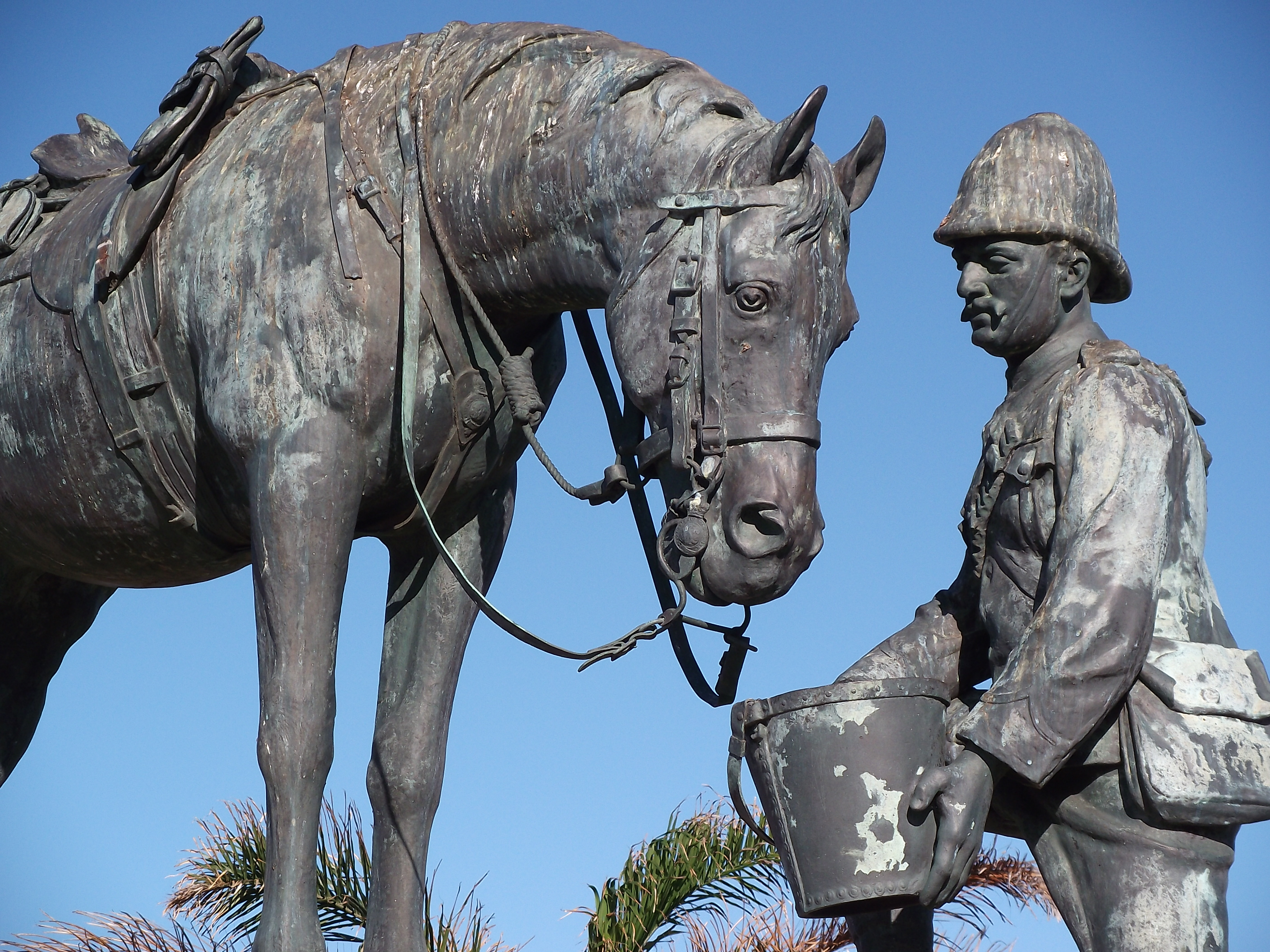 The Horse Memorial (Cape Road, Port Elizabeth, South Africa) bears the words: "greatness of a nation consists not so much in the number of its people or the extent of its territory as in the extent and justice of its compassion" "erected by public subscription in recognition of the services of the gallant animals which perished in the anglo boer war 1899-1902" This media shows a South African Protected Site with SAHRA file reference 9/2/073/0033.